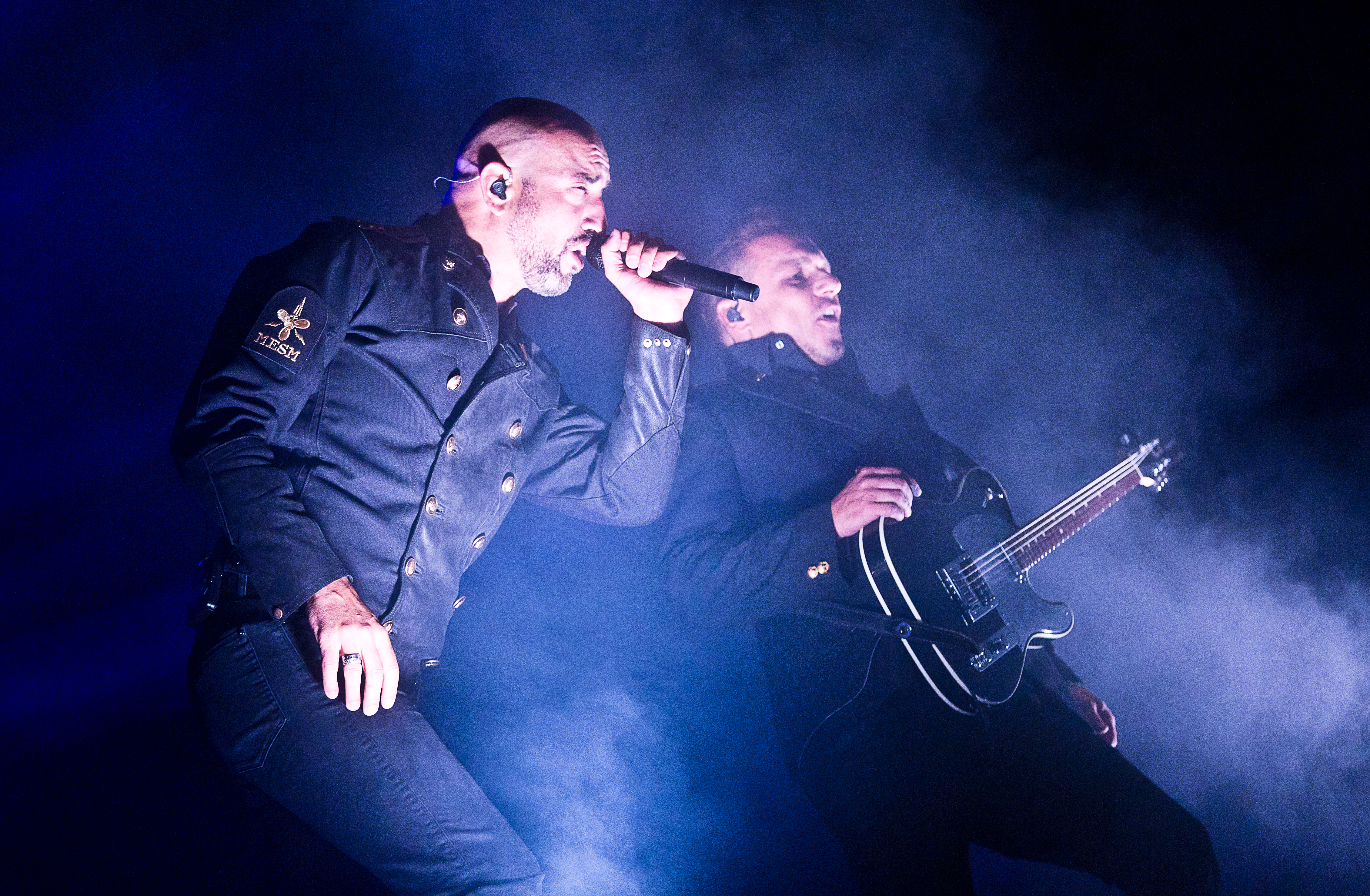 The German Neue Deutsche Härte band Eisbrecher at the Rockharz Open Air 2015 in Ballenstedt/Germany.